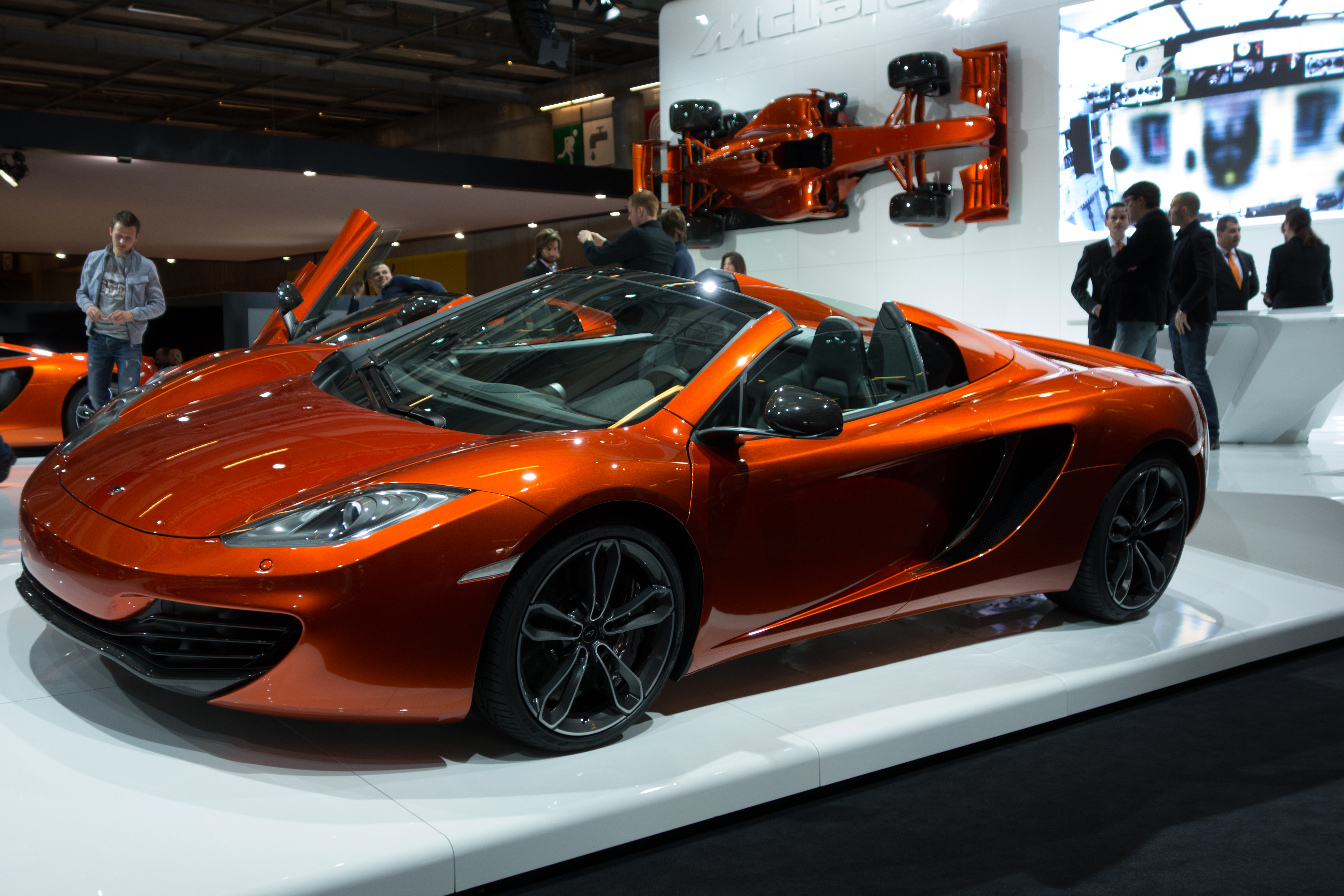 Mondial De L'automobile Paris 2012 | Paris Motor Show 2012